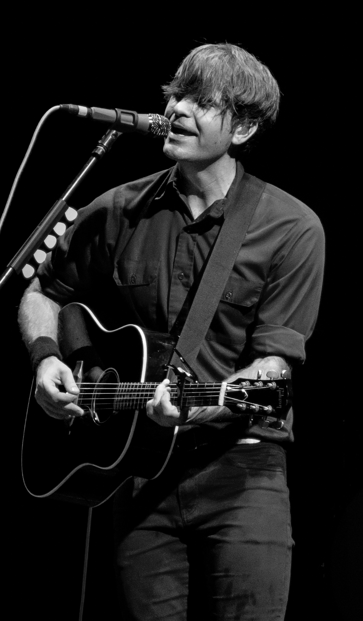 Ben Gibbard of Death Cab for Cutie at The Paramount in Seattle. October 4, 2015